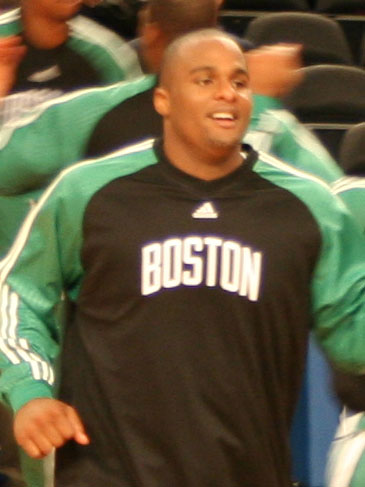 Glen Davis of the Boston Celtics warming up before a game against the New York Knicks at the Madison Square Garden